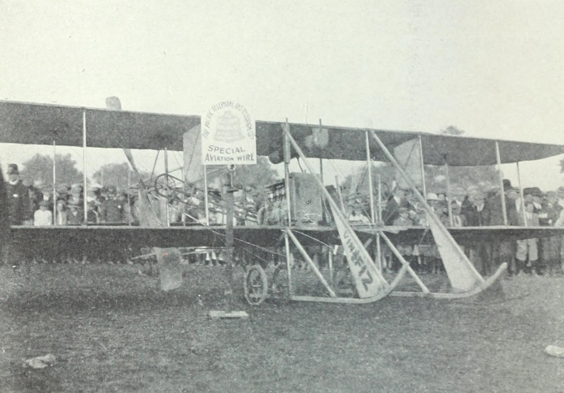 "The machine at Pasadena."